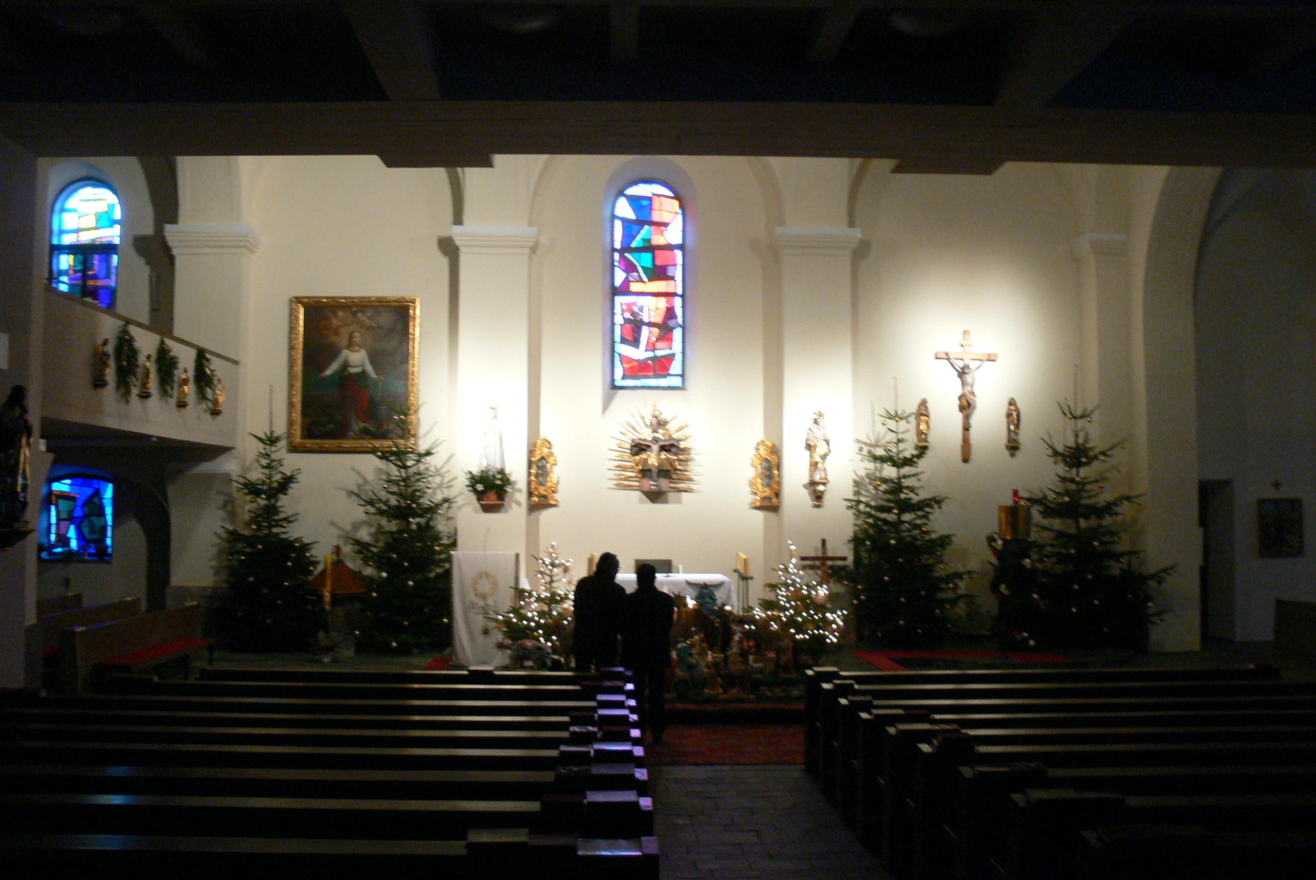 Lembach in Muehlkreis ( Upper Austria ). Saint Margarita parish church: Interior - View from the extension building to the main altar.